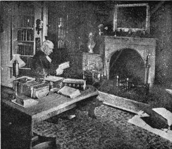 American writer, educator, and philosopher Amos Bronson Alcott in the study at his home, Orchard House, in Concord, Massachusetts. Image from Alcott's Ralph Waldo Emerson: An Estimate of His Character and Genius. Cupples and Hurd, 1882.